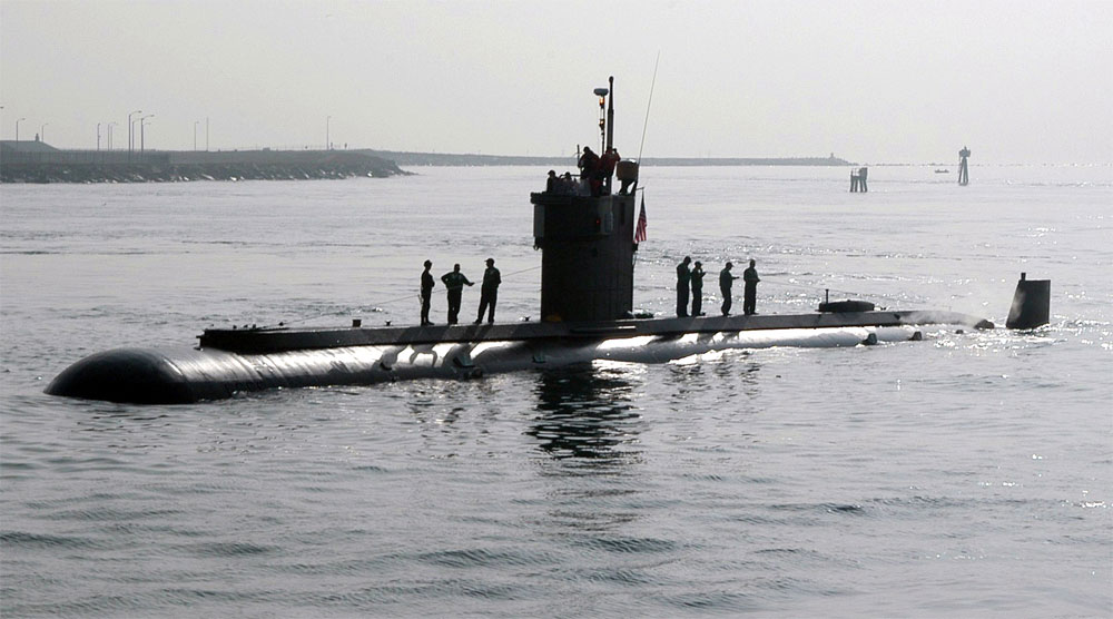 051215-N-3532C-001 San Diego (en:15 December, en:2005) – Crew members aboard the auxiliary research submarine USS Dolphin (AGSS-555), pull into San Diego harbor after conducting an underway period off the coast of Southern California. Dolphin was commissioned on en:17 August, en:1968 and serves as the Navy's deep diving submarine and scientific test platform. It is assigned to Submarine Development Squadron Five in San Diego. U.S. Navy photo by Journalist Seaman Joseph Caballero (RELEASED) Source: cropped from [1] at [2]